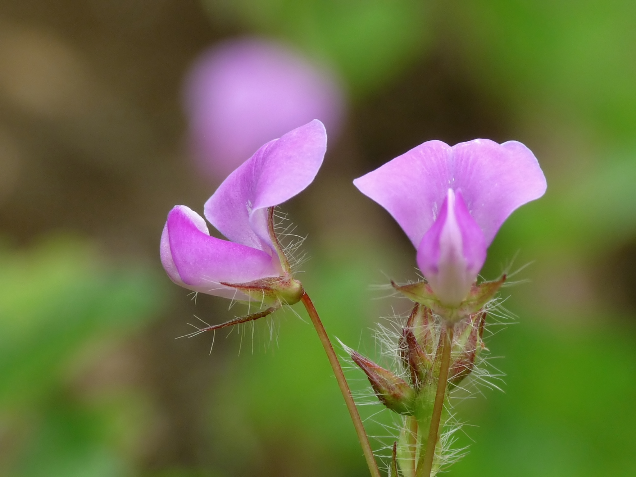 Desmodium triflorum, Creeping Tick Trefoil, is an ornamental plant in the Fabaceae family. It is native to Florida, Hawaii, and some small areas of other southern states of the United States. It is a creeper, a vine that grows along the ground as opposed to growing up trees or buildings. It has three leaves with smooth edges and a white stripe up the middle, ranging from a bright white to a barely visible grey stripe, depending on the nutrients of the soil. The stems of the plants are either green, red, or both, with minuscule hairs along them. The seeds are in pods that cling to clothing and hair, not unlike velcro. The plant relies on this system to spread growth of the plant. D. triflorum is highly resistant to grazing or mowing, which makes it very difficult to get rid of. Creeping Tick Trefoil [1]is a much branched, mat-forming creeping herb, with clover-like leaves. Leaves are divided into 3 leaflets, the lower leaves sometimes undivided. Leaflets are inverted-egg shaped, to inverted-heart shaped, rounded and notched at the tip. They are mostly less than 1 cm long, up to 9 mm wide, sometimes with 2 white marks. Flowers arise few in fascicles, opposite the leaves, on stalks 3-8 mm long, lengthening in fruit to just over 1 cm. Flowers are reddish-violet or pale pink, standard petal obovate, 4-5 mm long. Pods are up to 1.7 cm long, about 2.3 mm broad, 3-7-jointed. ↑